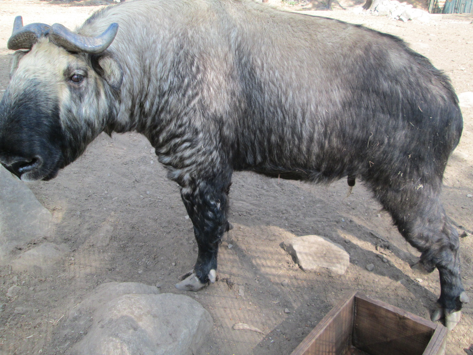 "Takin" the National animal of Bhutan